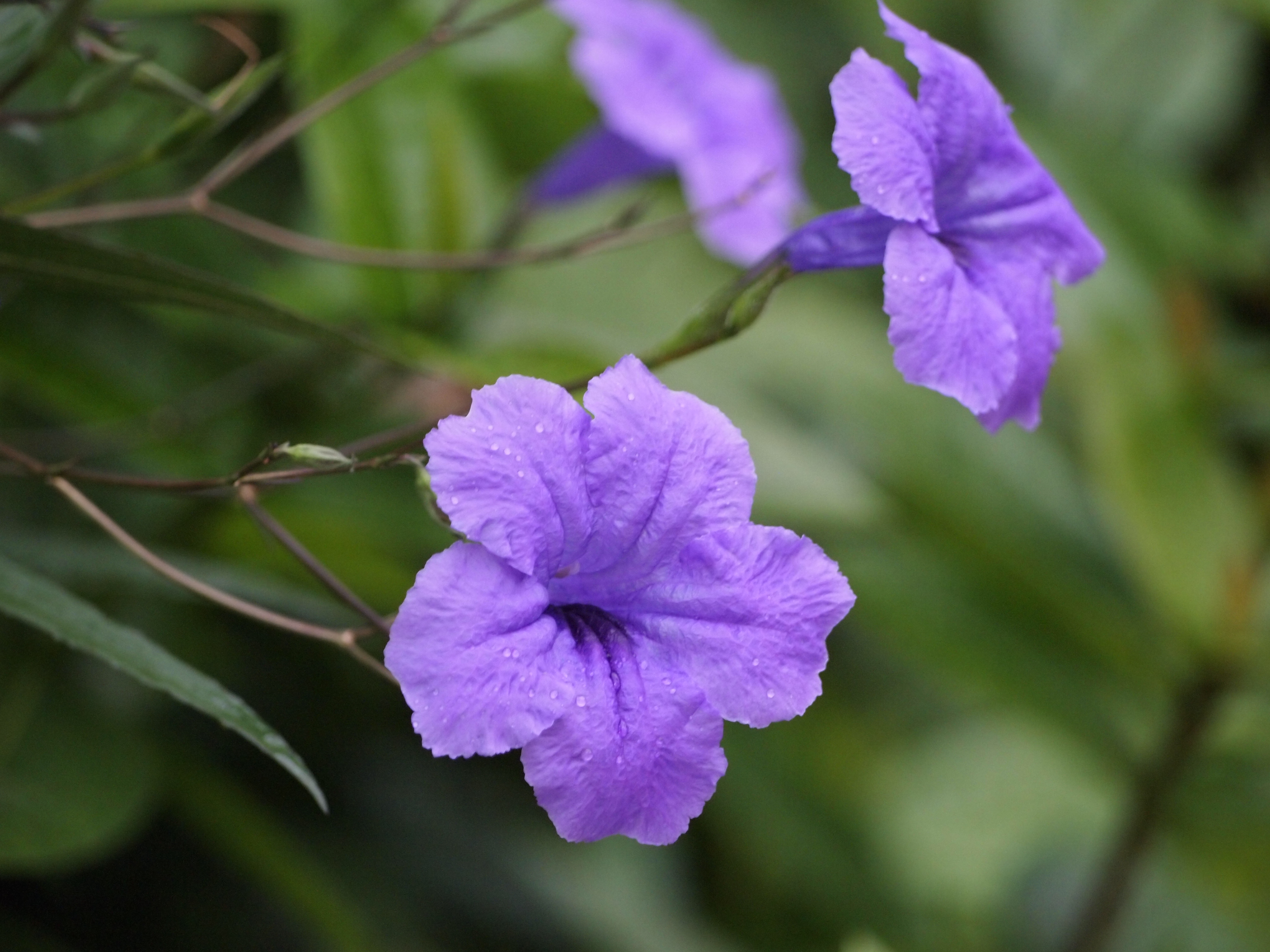 Barleria cristata (Philippine violet , Bluebell barleria or Crested Philippine violet) grown in Malaysia